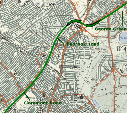 1960 Ordnance Survey 1:25,000 map overlaid with modern GPS trace of the A12 and annotation of protest sites during the road's construction.